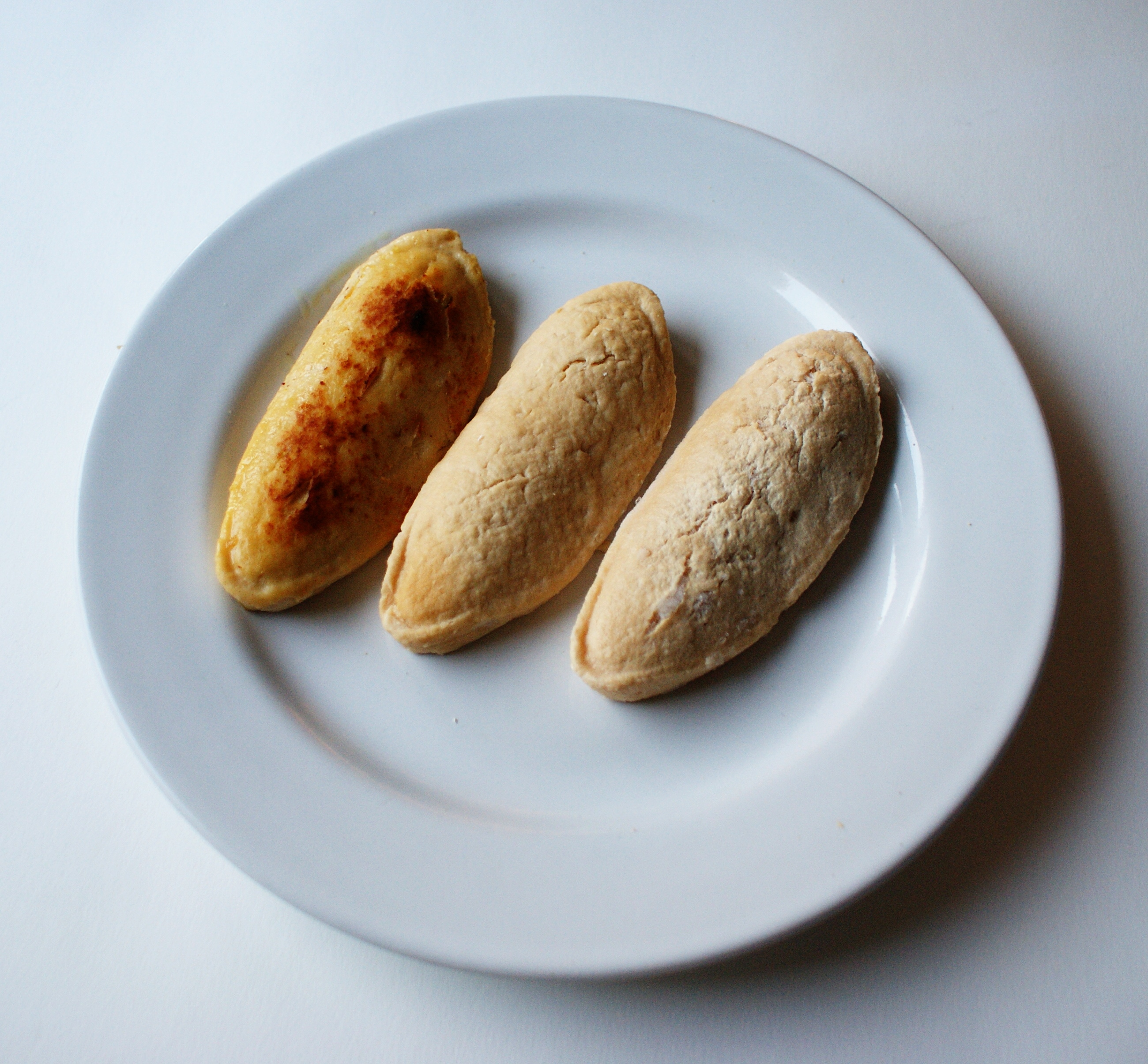 Quorn fillets - fried, defrosted and frozen.